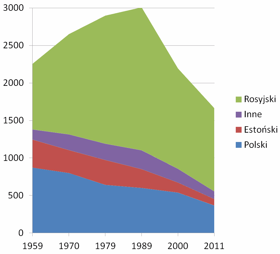 Ethnic Poles in Estonia - mother tongue (national censuses data)